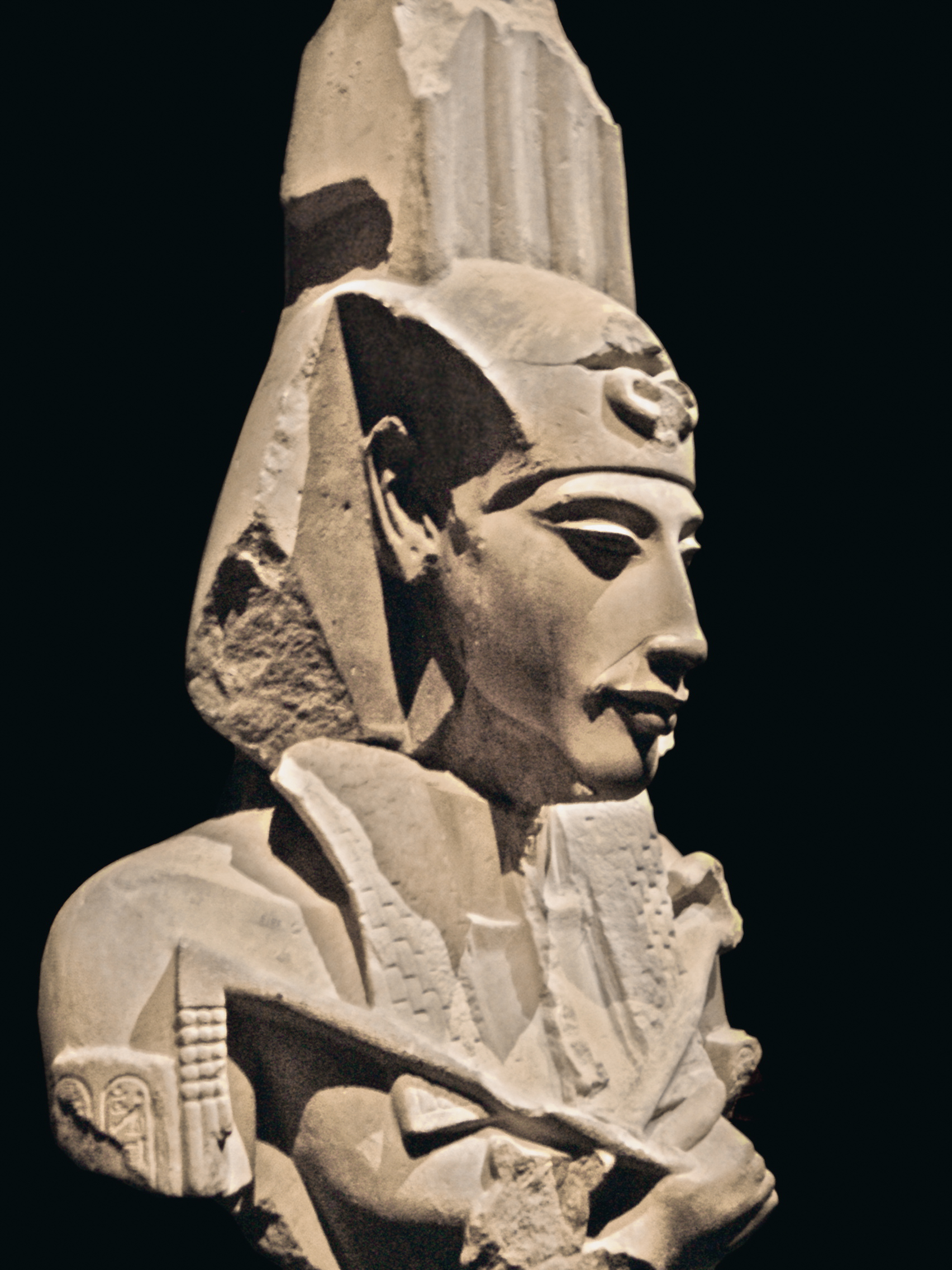 Faraoh Akhenaten in a pillar of remains of Aton temple in Karnak. Actually in Egyptian Museum, in Cairo, Egypt